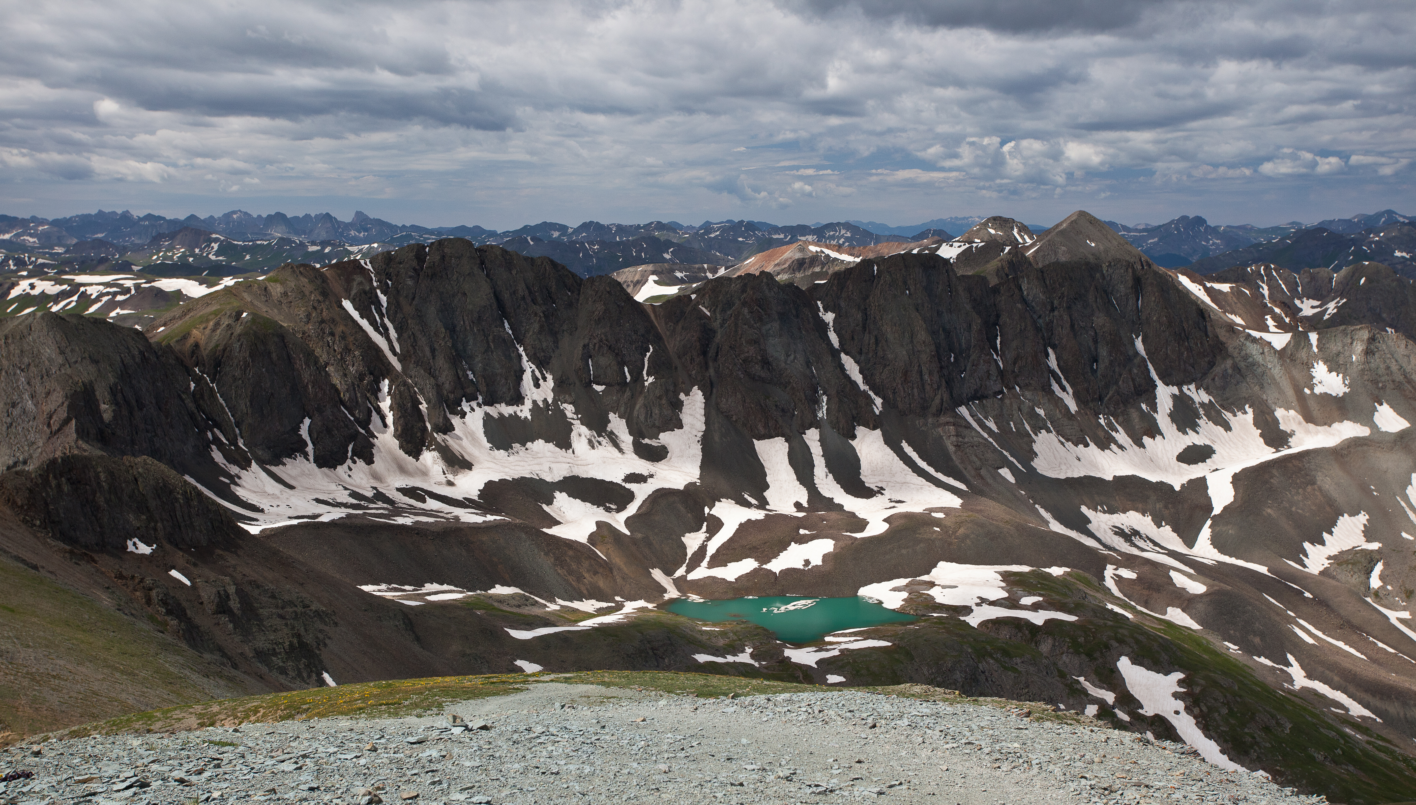 The scenic quality of the Handies Peak Wilderness Study Area in Colorado is outstanding due to the interaction of mountainous landforms; multi-colored rock strata; diverse vegetation; and vast, open vistas. Handies Peak itself rises 14,048 feet (4,282 m) over the area and is the highest point of land managed by the Bureau of Land Management outside of Alaska. This WSA also hosts 12 other peaks that rise over 130,000 feet (40,000 m), three major canyons, numerous small drainages, glacial cirques and three alpine lakes. The geomorphology shows a variety of volcanic, glacial and Precambrian formations. A rock glacier formation is also located at the head of American Basin. Vegetation consists mainly of mixed sprice, fir, aspen, alpine grasses, sedges, and forbs. Fauna includes elk, deer, black bear, various small mammals, bighorn sheep, and very rarely, mountain goats. Recreation activities include hiking, backpacking, camping, mountain climbing, and photography. Please note that though unconfined recreation is encouraged in WSAs, specific types of recreation may be barred from a specific area to prevent degradation of natural conditions. Plan your trip: Photo: Bob Wick, BLM California